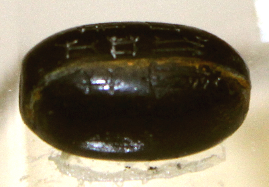 Agate beads with the name Adad-nārārī III Mannean period from Khojali